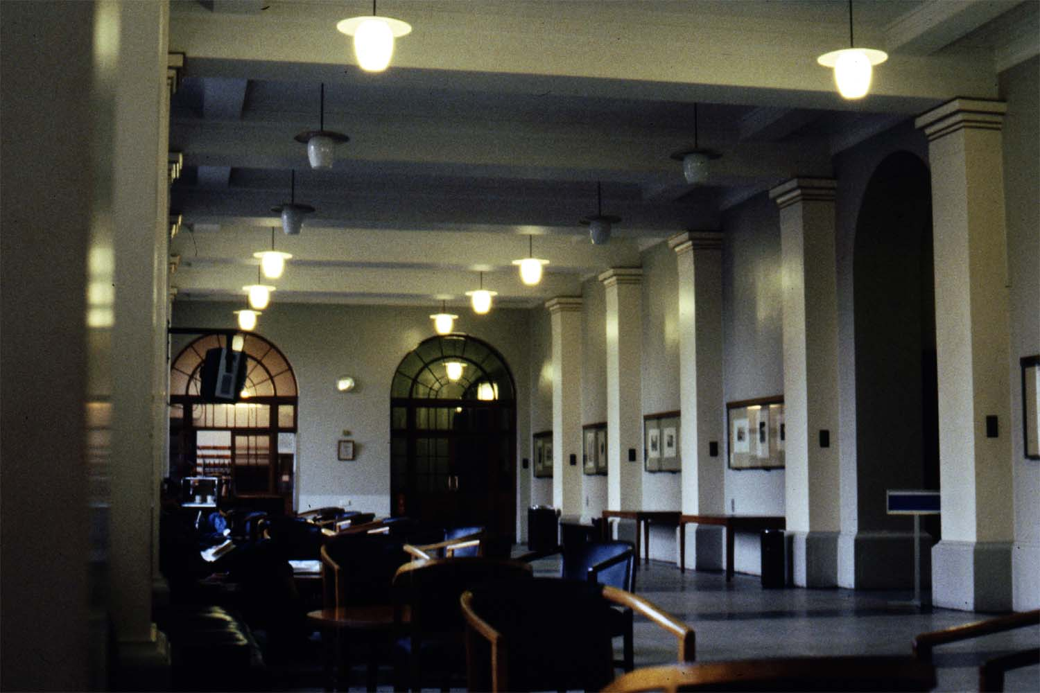 North Cloisters in University College, London. Photo is taken looking south